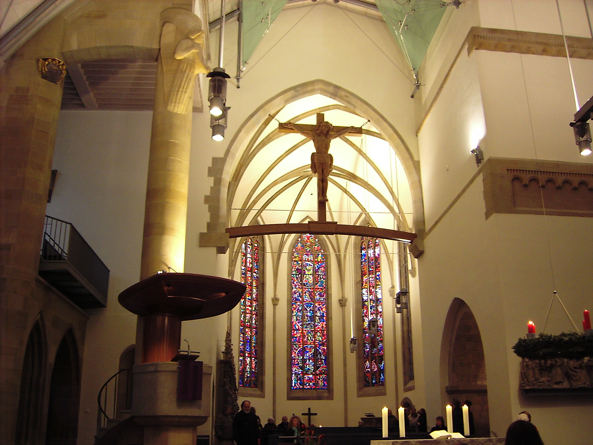 Church "Stiftskirche" Of Stuttgart, Germany (interior view)